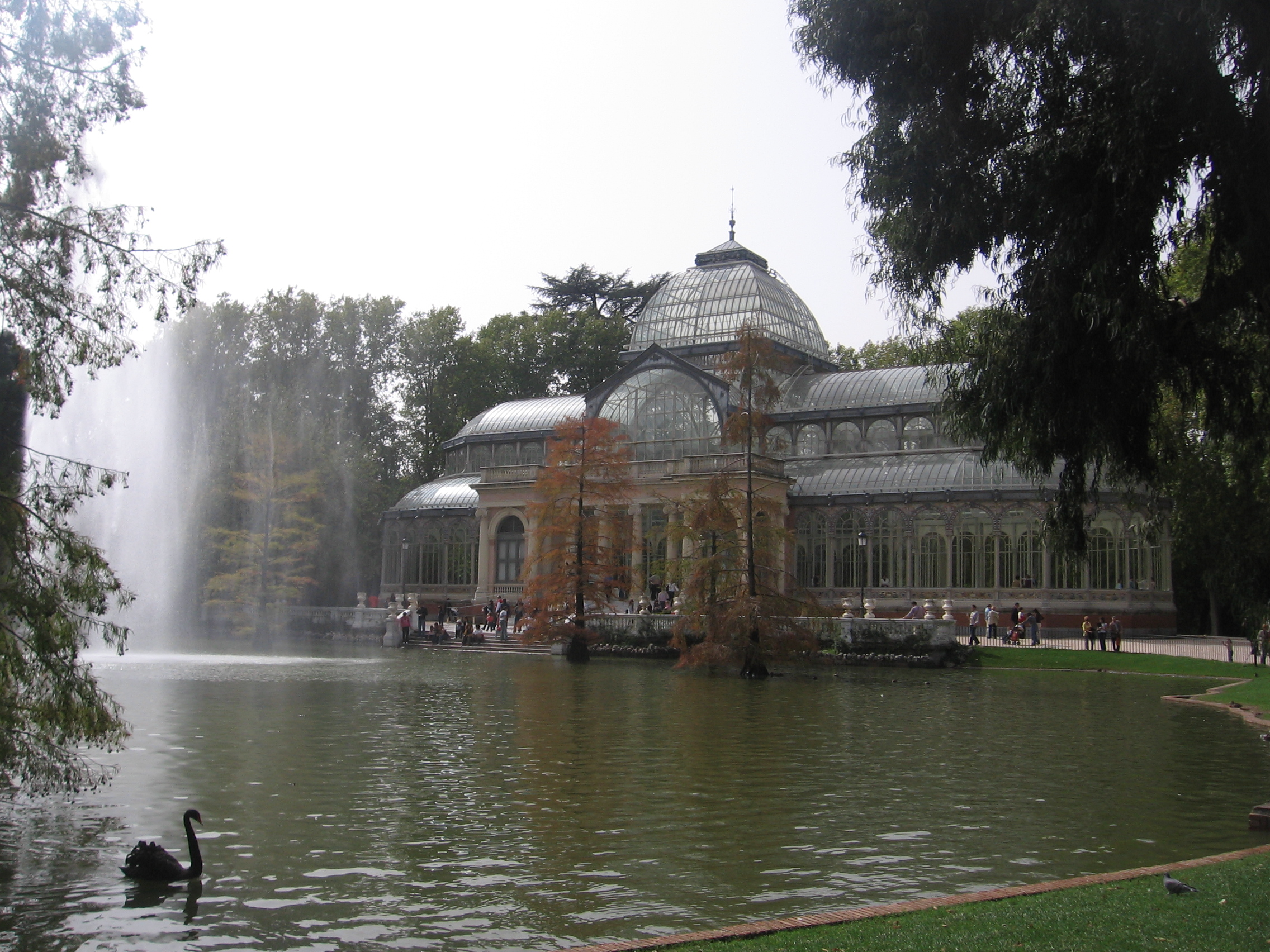 Parque del Buen Retiro, Madrid.